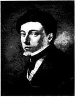 Portrait of Joseph Magnus Stäck